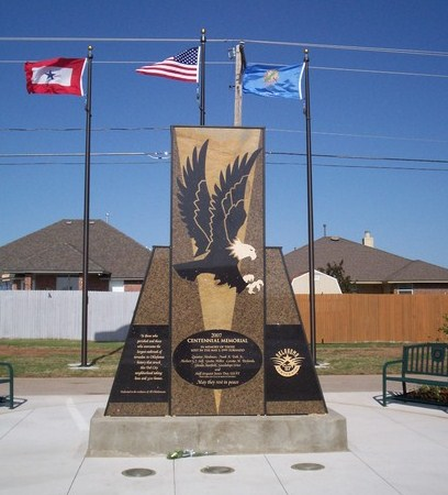 The May Third 1999 Tornado Monument located in Del City,OK.